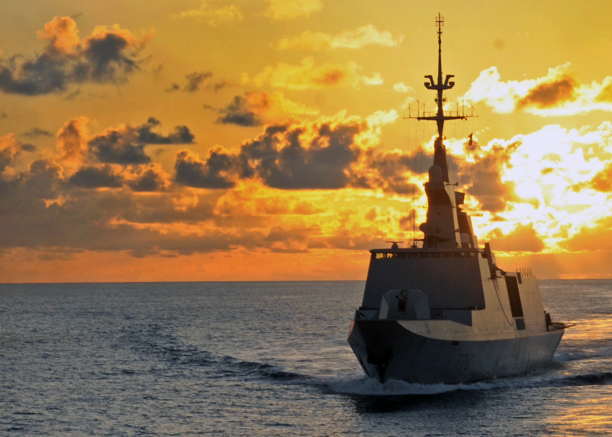 French frigate Guépratte (F714) in Indian ocean.